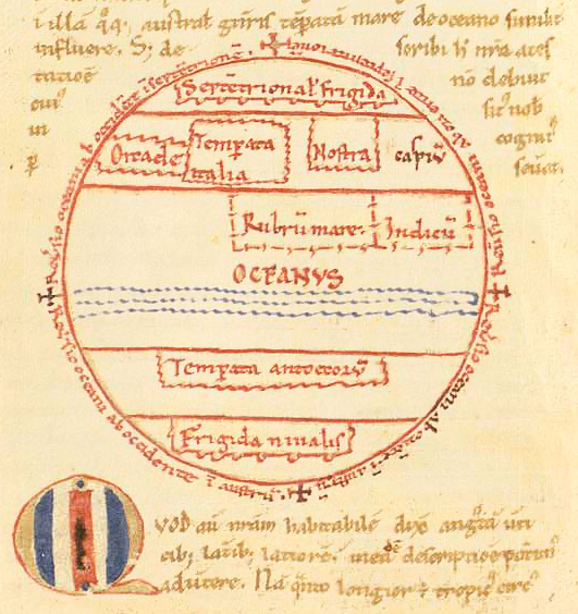 Figure of the Earth from Macrobius, Commentarii in Somnium Scipionis